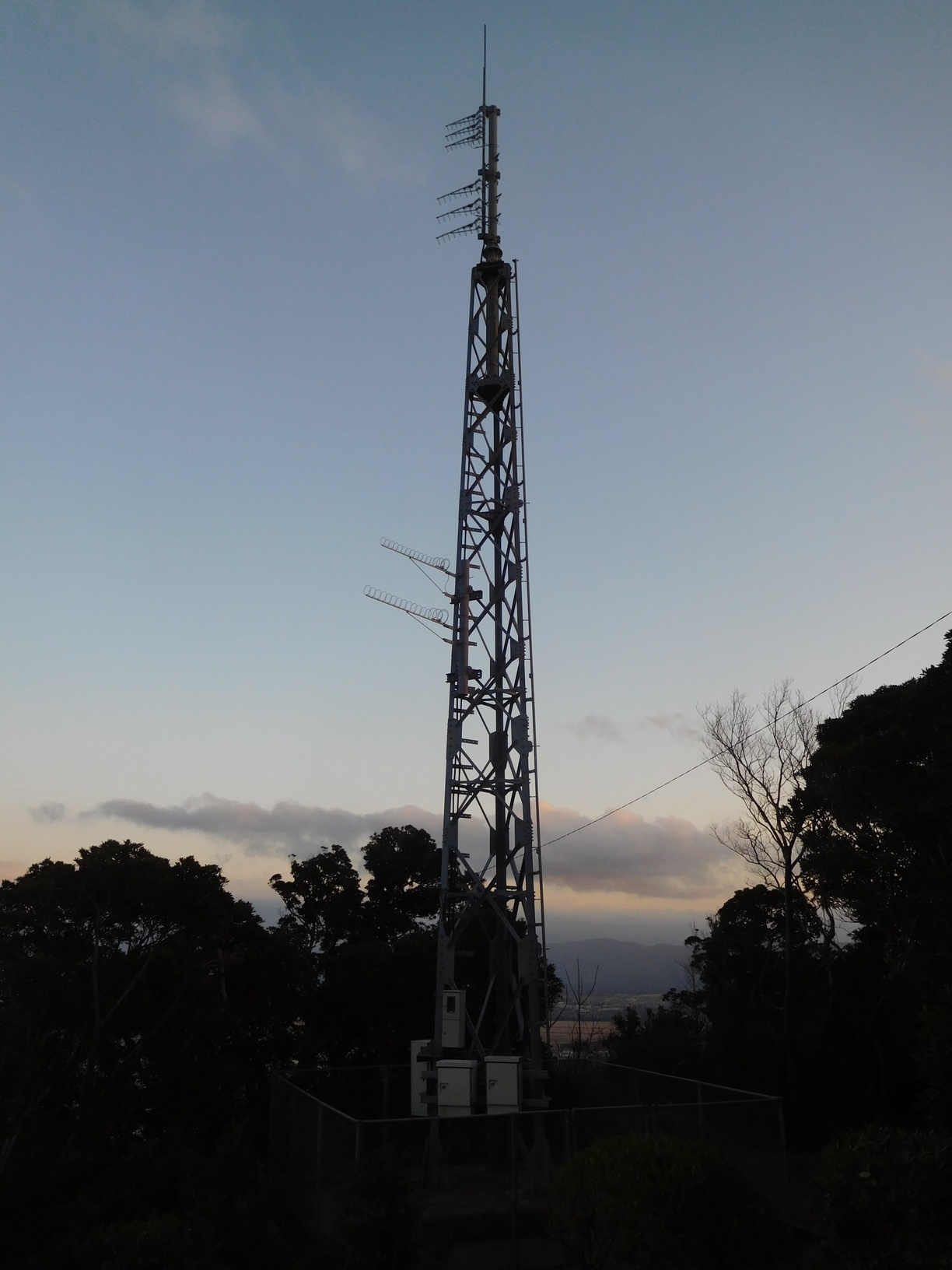 West Kanoya Digital TV Repeater (Kanoya City, Kagoshima, Japan)